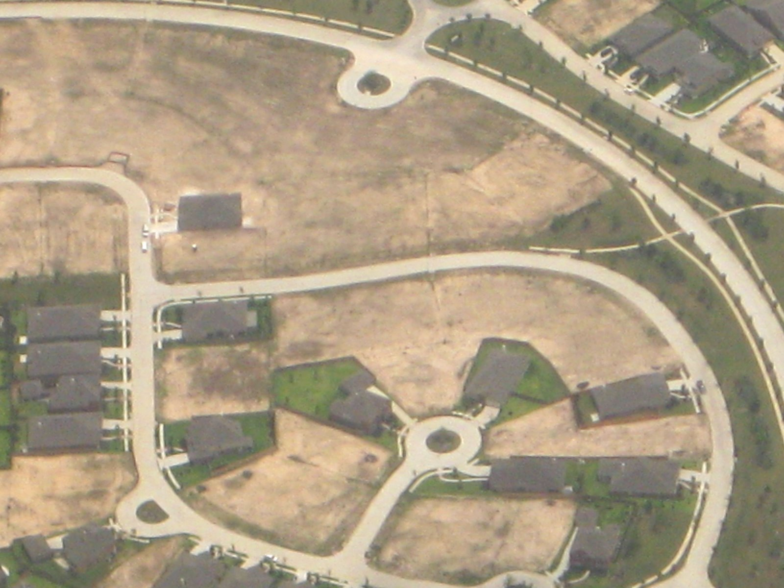 Unfinished housing development outside of Houston. From